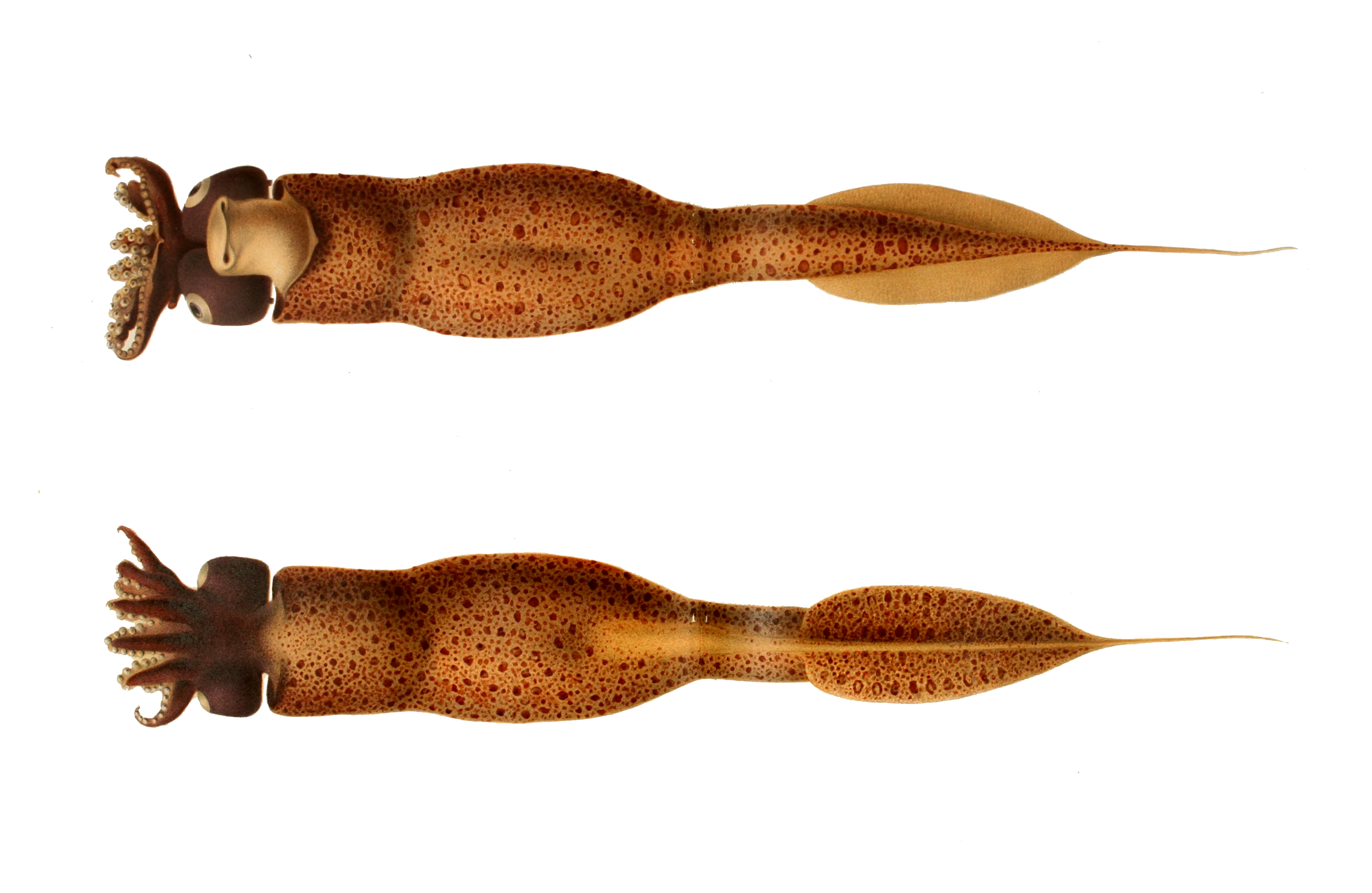 Grimalditeuthis bonplandi